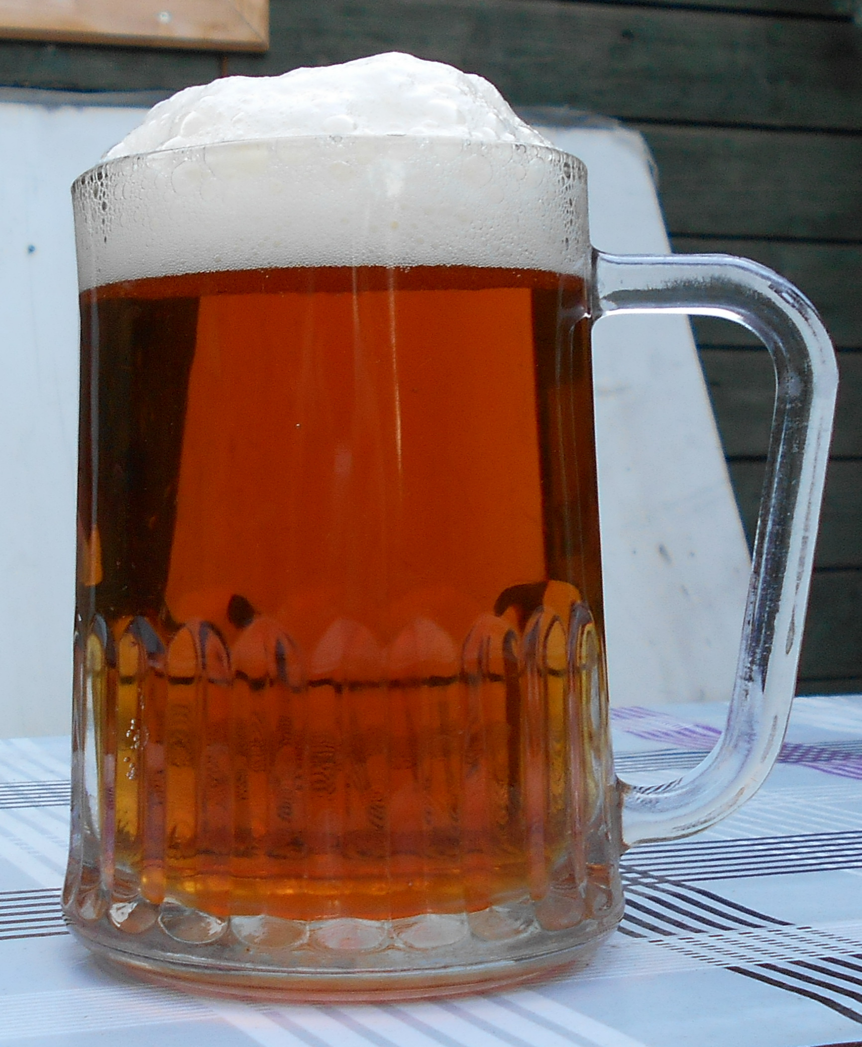 A mug of Vienna lager